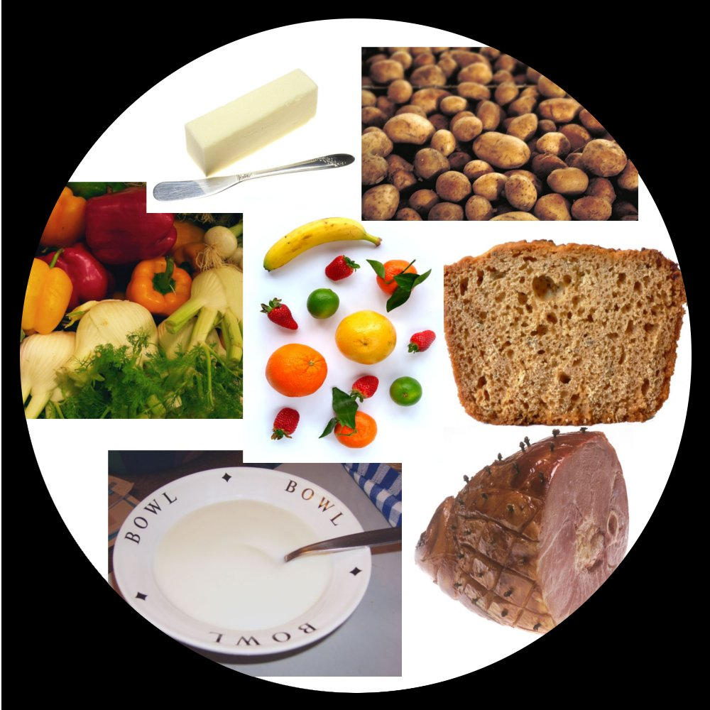 Kostcirkeln, all "minipictures" from commons.